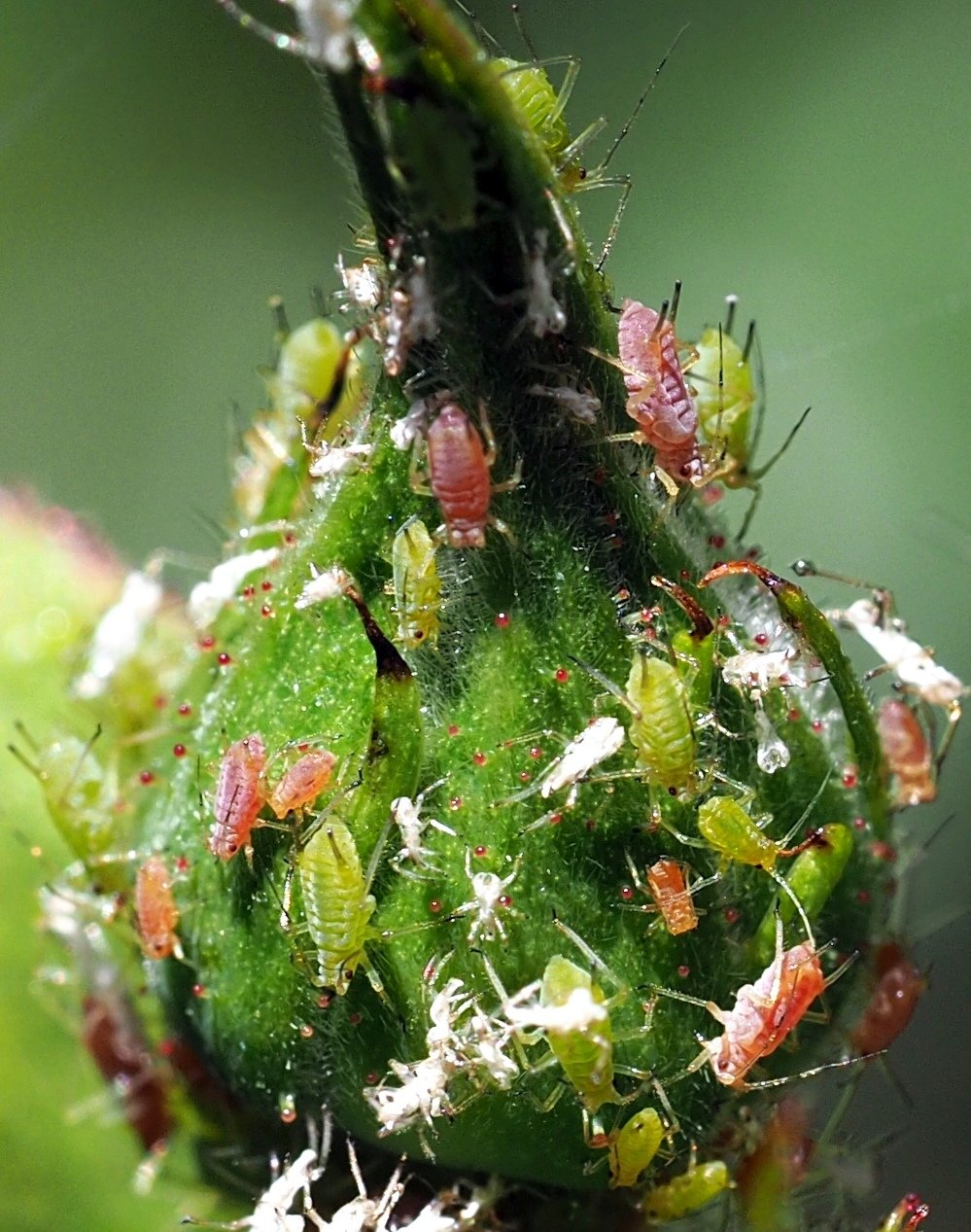 Macrosiphum rosae on a rose bud